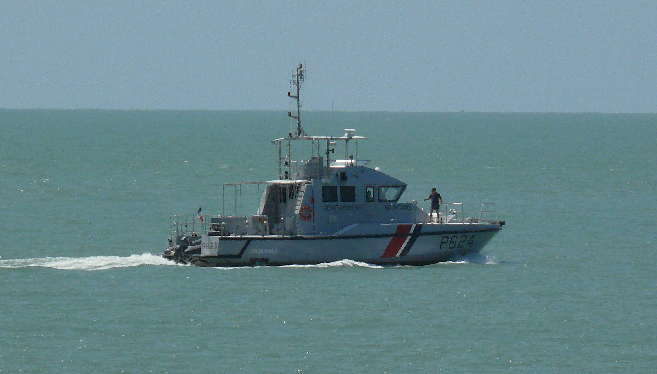 The Organabo (P624), VCSM (Vedette Côtière de Surveillance Maritime, "naval surveillance coastal patrol ship") ship French Coast Guard (Gendarmerie Maritime) stationed at St Joseph's Island in French Guiana. Photo taken from Royale Island.